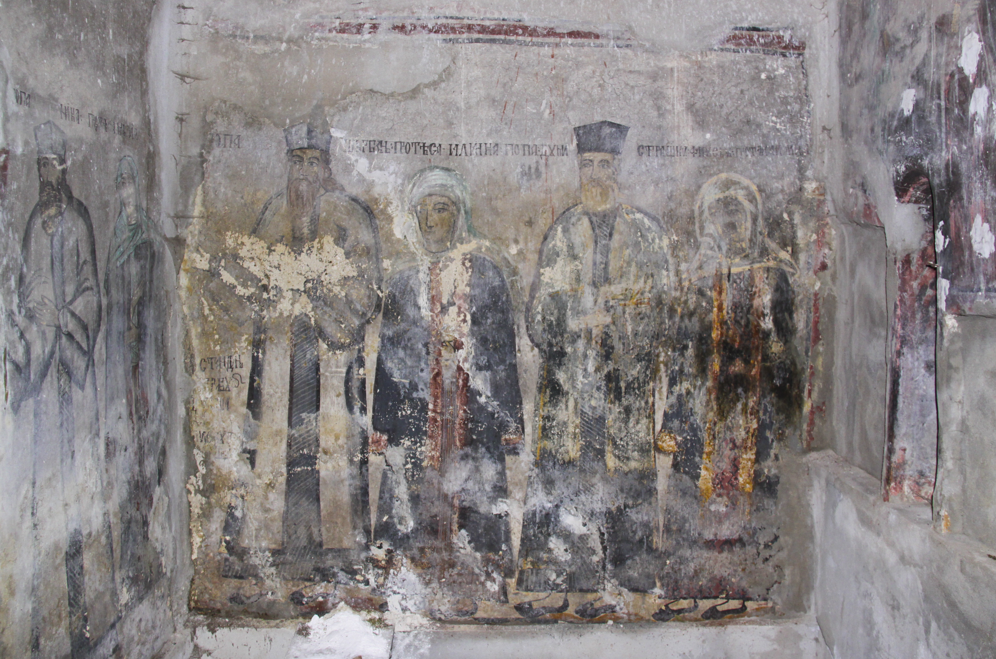 Mierea, Vâlcea county, Romania: the church.